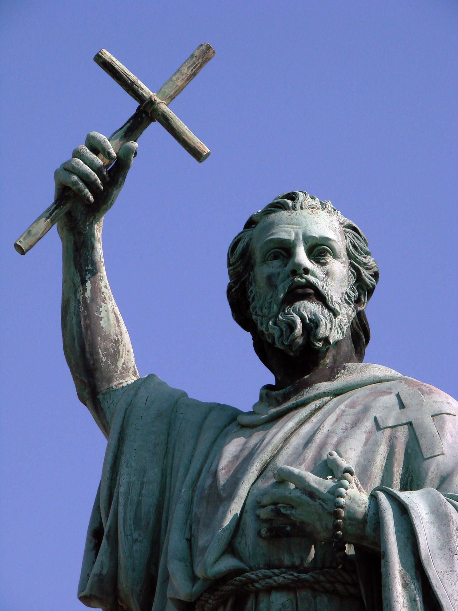 Statue of Saint Peter the Hermit (Saint Peter of Amiens) behind the cathedral of Amiens, France, by Gédéon de Forceville (1854).